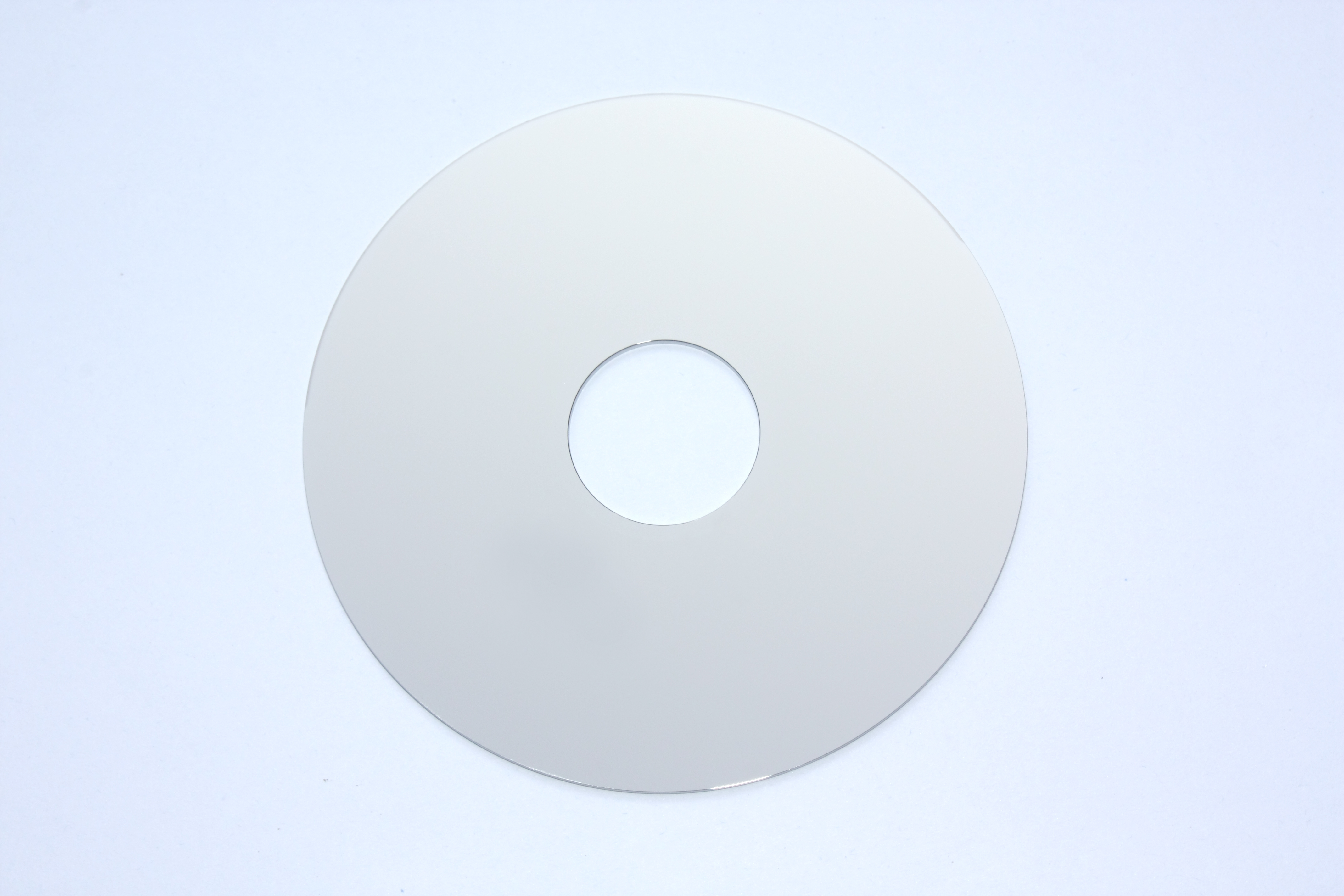 Hard disk drive platter on a white board